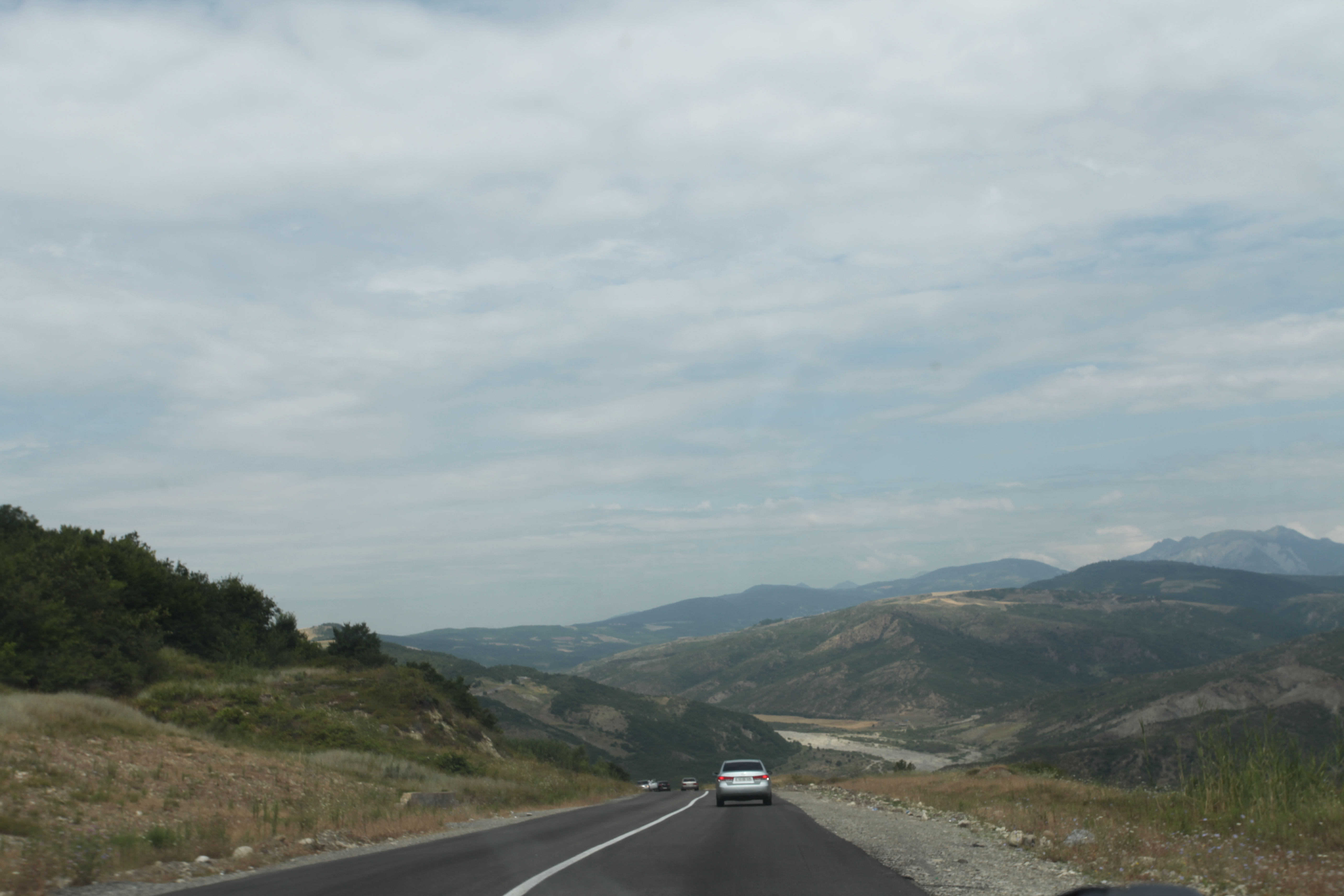 Road to Ismailli